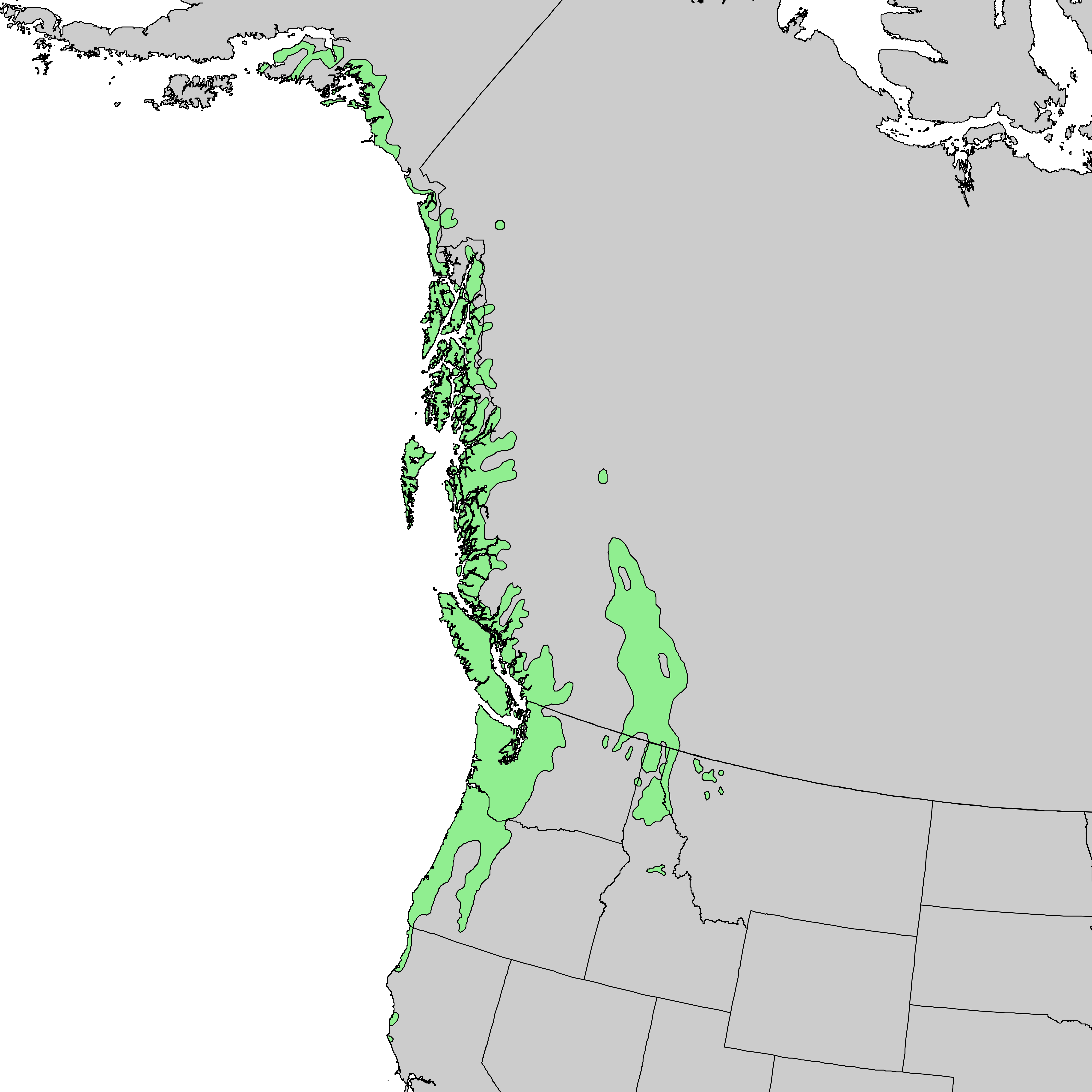 Natural distribution map for Tsuga heterophylla